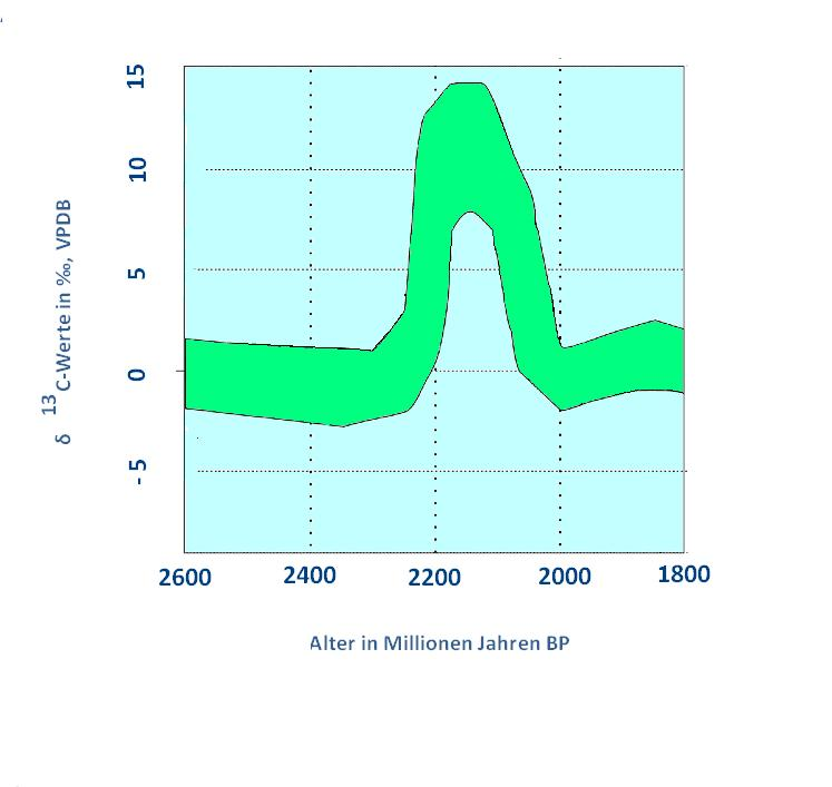 Graph of the d13C-values during the Paleoproterozoic (2600 until 1800 million years BP) depicting the Lomagundi-Jatuli isotope excursion. Sketch after Karhu and Holland (1996).